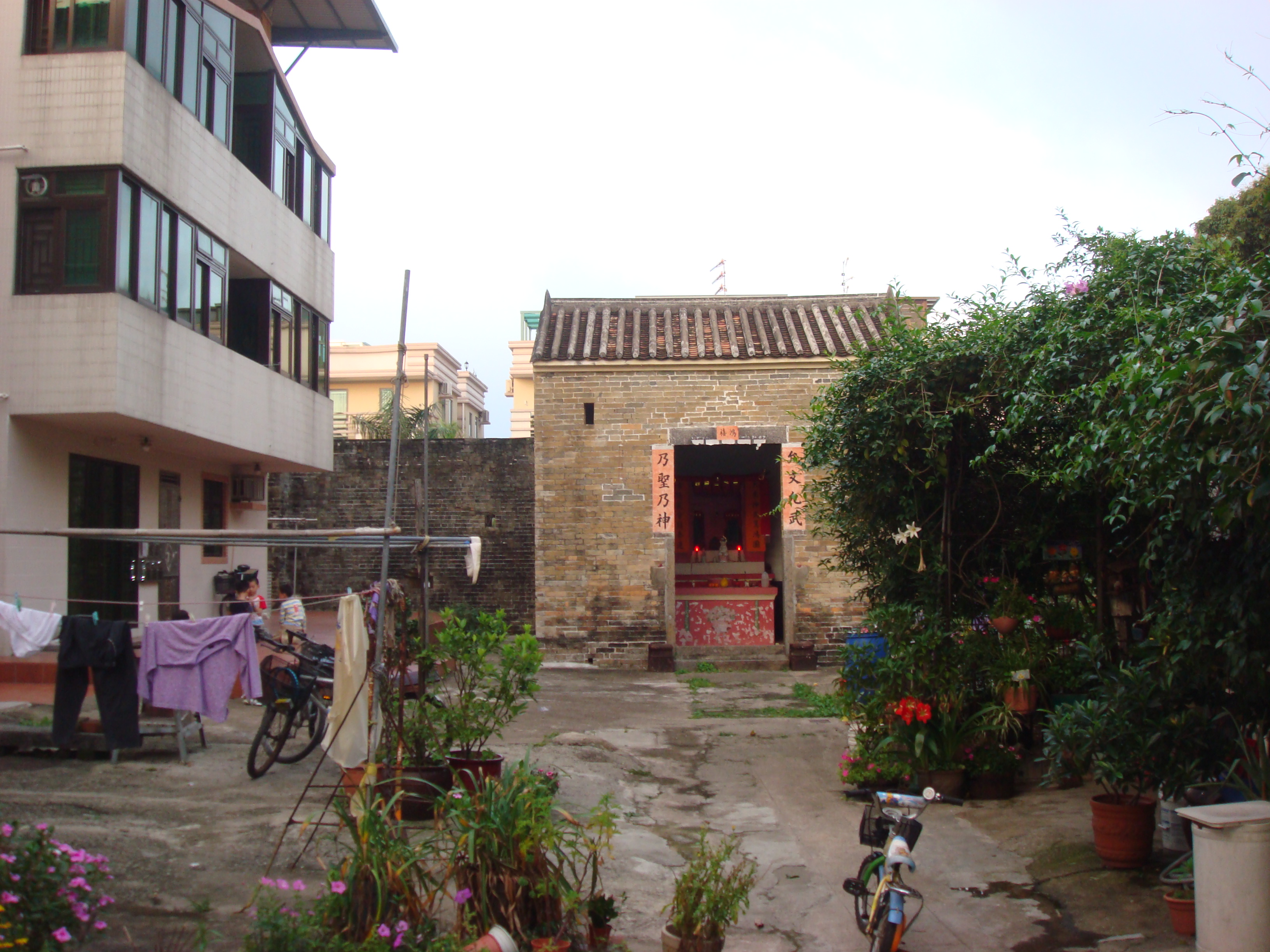 Village temple of Kun Lung Wai aka. San Wai, a walled village of Hong Kong. The Gate Tower, enclosing walls and and the Corner Watch Towers are declared monuments.